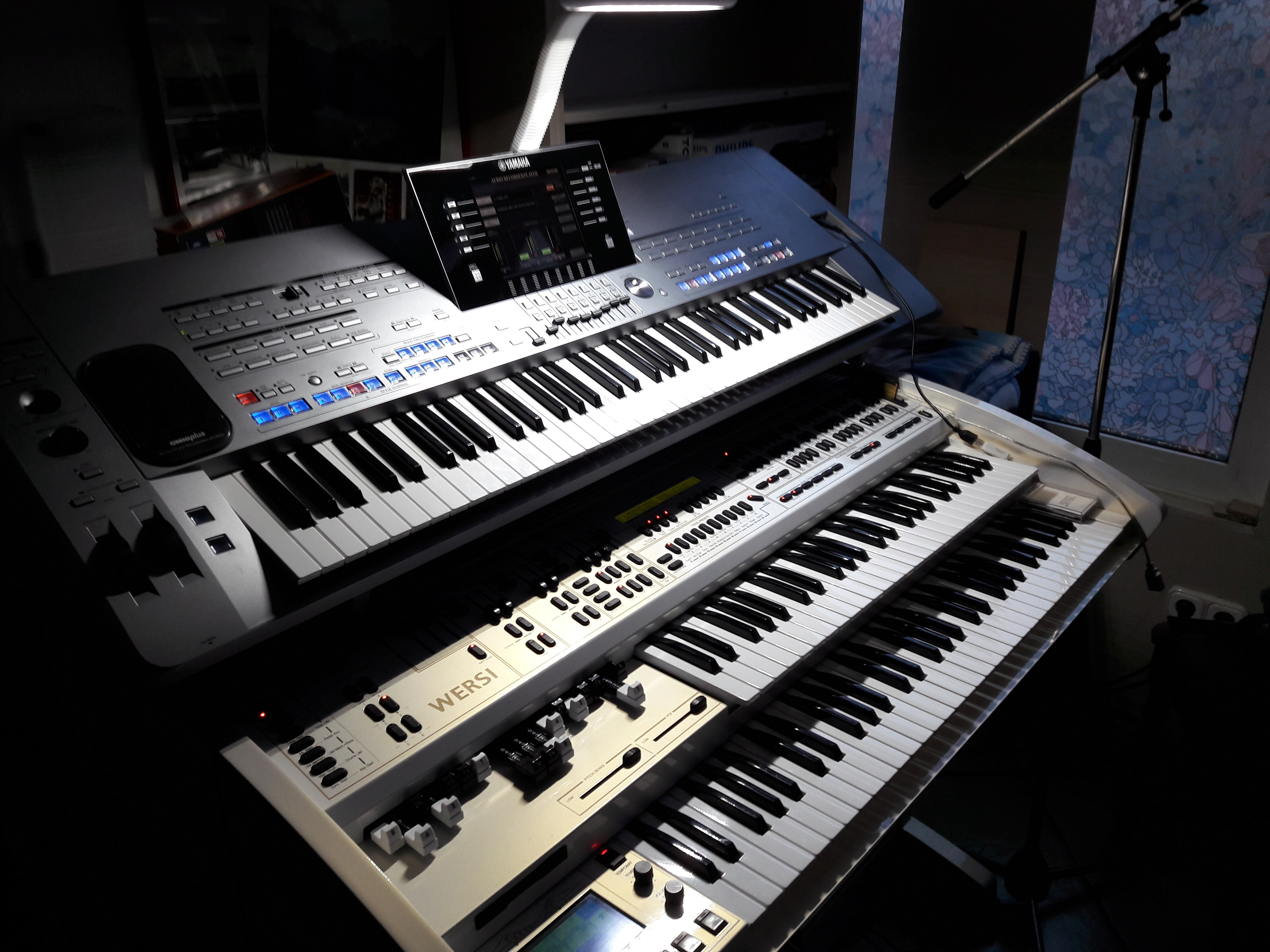 Yamaha Tyros5 & WERSI digital organ